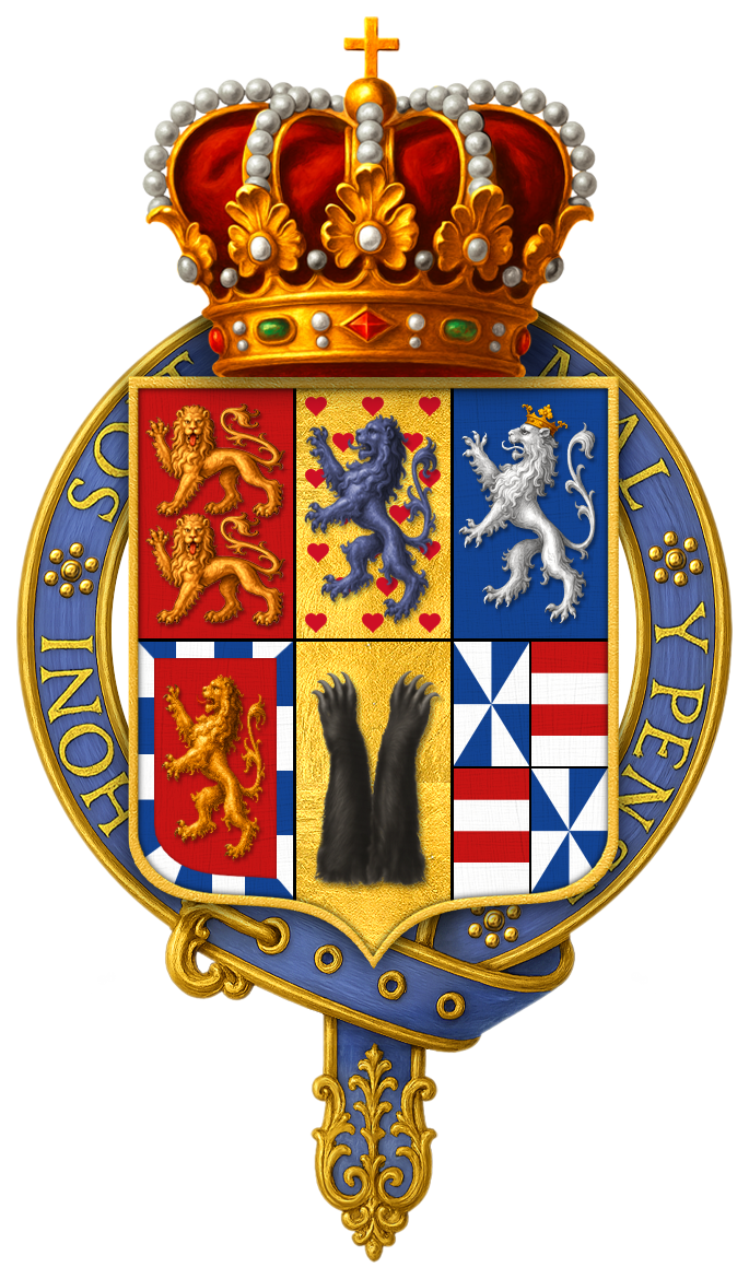 Coat of arms of Christian, Duke of Brunswick-Lüneburg and Bishop of Halberstadt